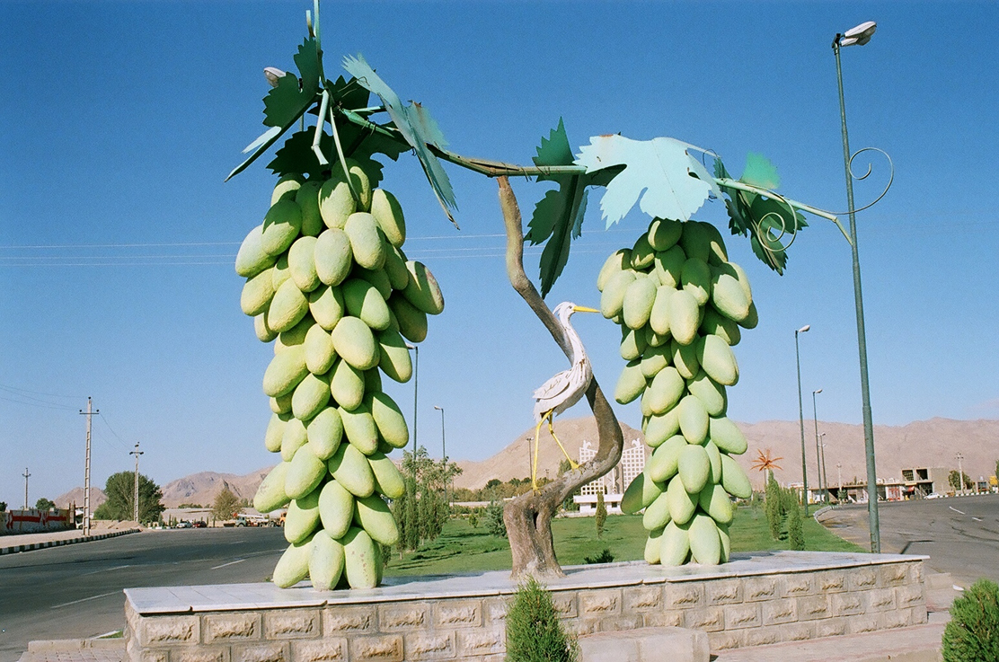 Welcoming monument of the city: Welcome to the city of grapes !